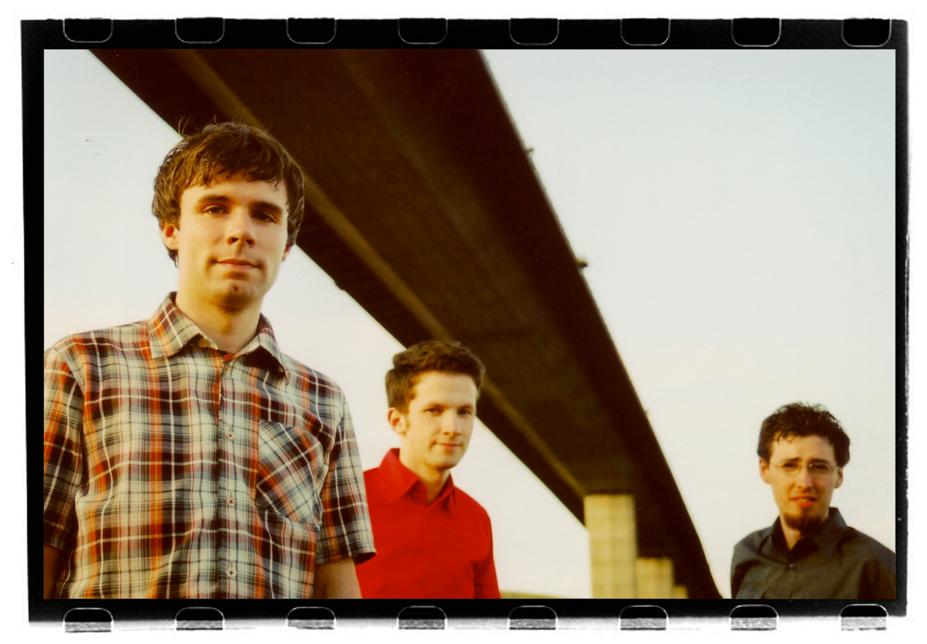 Scottish independent rock band Stapleton, circa 2002.